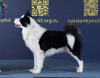 Yakutian Laika